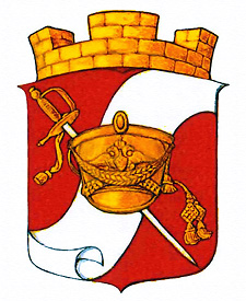 Krasnoe Selo (municipality in St. Petersburg), coat of arms